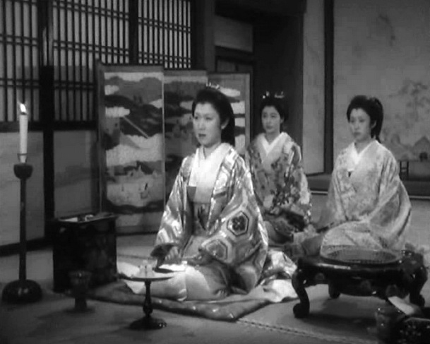 Screenshot from The Life of Oharu, 1952 film. Hisako Yamane as Lady Matsudaira.